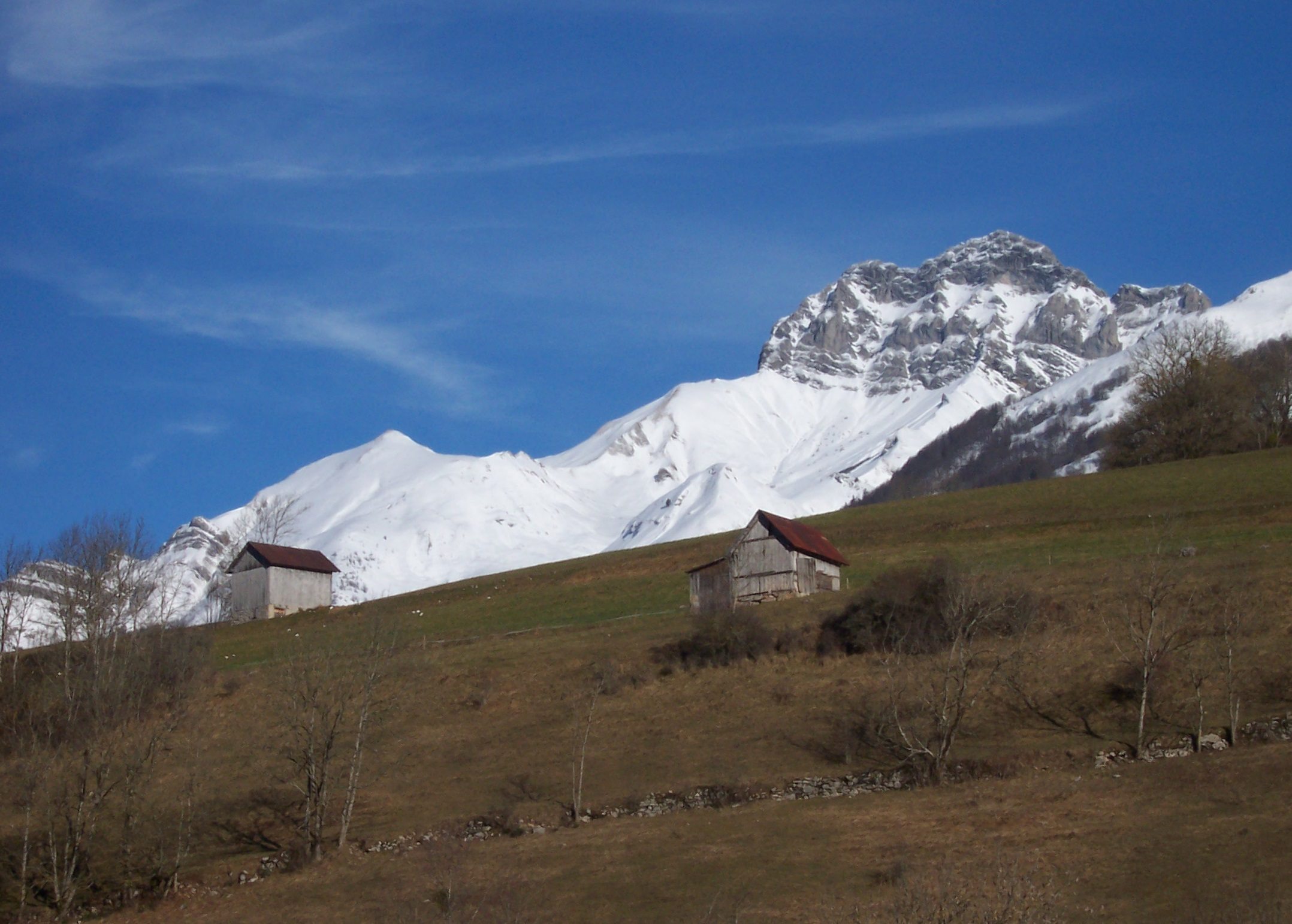 Arcalod, higher summit (2,217 m) of the Bauges(Savoie, France), seen from Jarsy